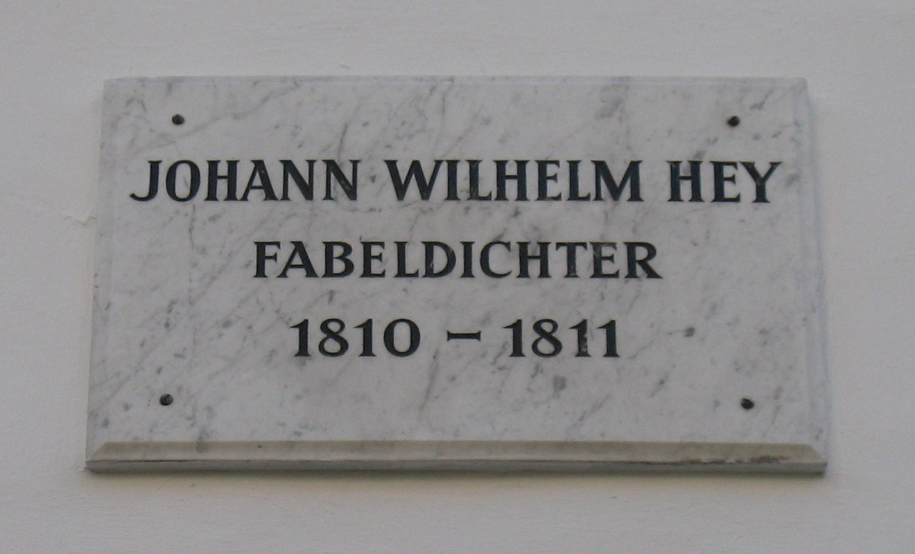 Memorial tablet for Johann Wilhelm Hey in Göttingen in Lower Saxony, Germany